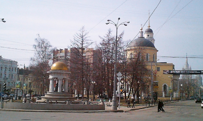 Moscow, Nikitskaya Square. Fountain and Church of Alexander Pushkin and Nataly Goncharova